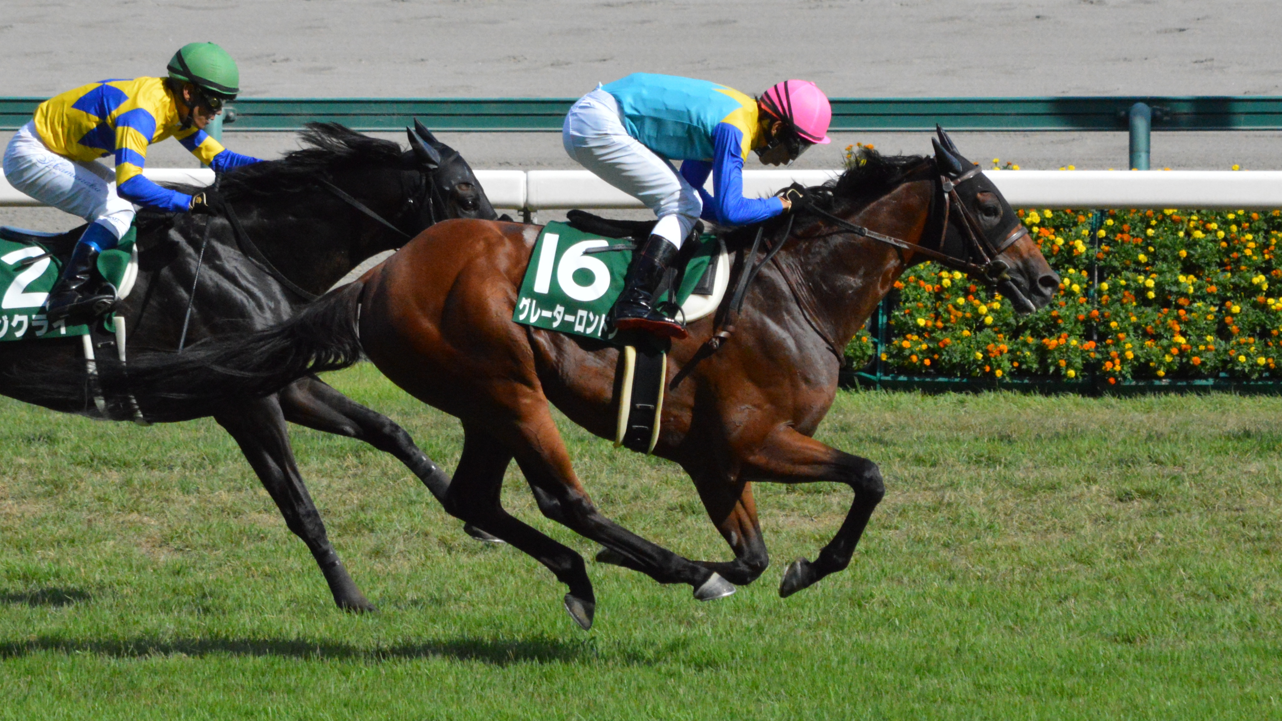 Japanese race horse Greater London at Chukyo racecourse.